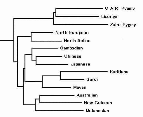 High resolution of human evolutionary trees with polymorphic microsatellites